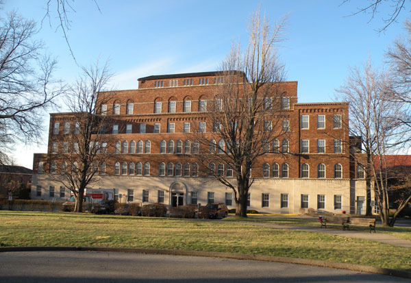 Picture of a former building of the Tuberculosis Hospital of Pittsburgh complex (also known as Western Restoration Center), which includes six buildings located at or near 2851 Bedford Avenue in the Bedford Dwellings neighborhood of Pittsburgh, Pennsylvania. The building pictured here is located at 2827 Bedford Avenue; the largest of the six buildings, it is now called "Milliones Manor Apartments". This former clinic and sanatorium complex was originally built circa 1900, added to in the 1920s and into the 1940s, and is listed on the National Register of Historic Places. Currently, most of the buildings are used as apartments and/or offices.